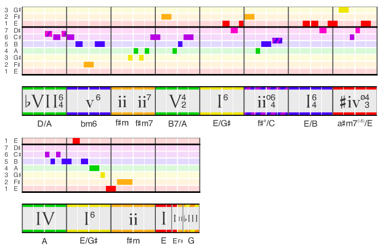 Chord diagram of "God Only Knows"